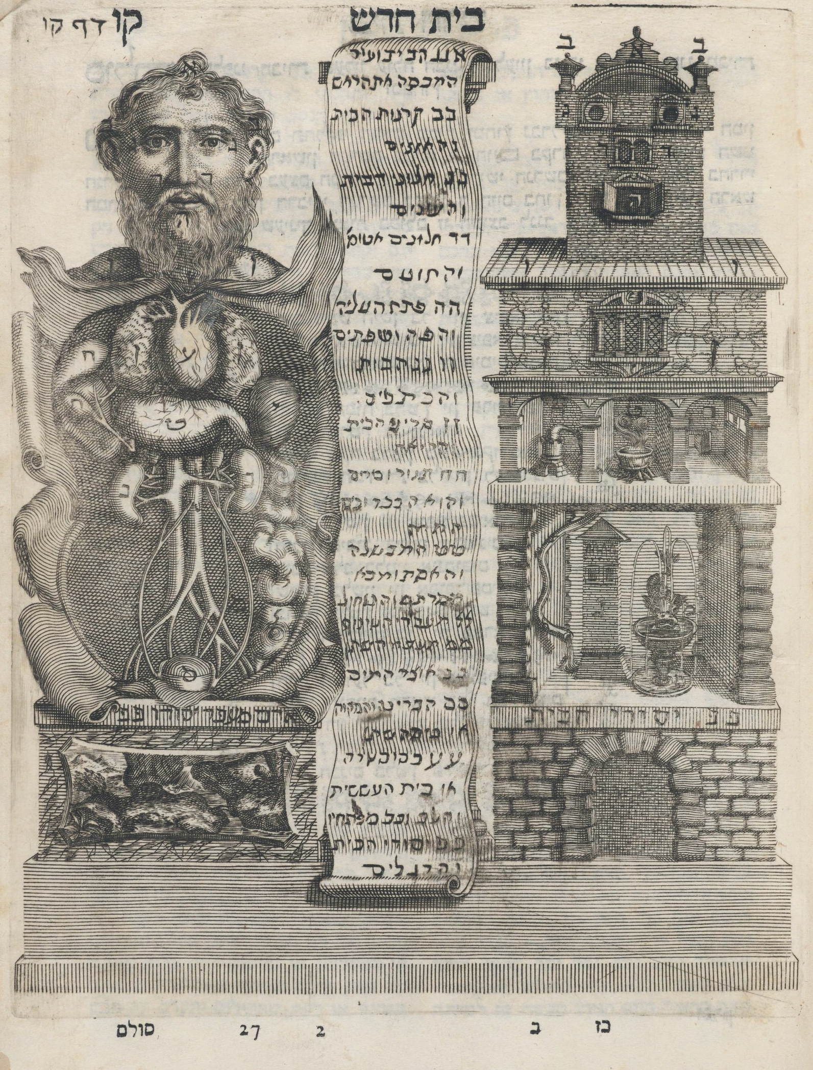 Image from Ḥeleḳ rishon mi-Sefer ha-ʻOlamot, o, Maʻaśeh Ṭoviyah, 1708, by Ṭoviyah Kats (Tobias Cohn), 1652?-1729. Heb 7459.800*, Houghton Library, Harvard University